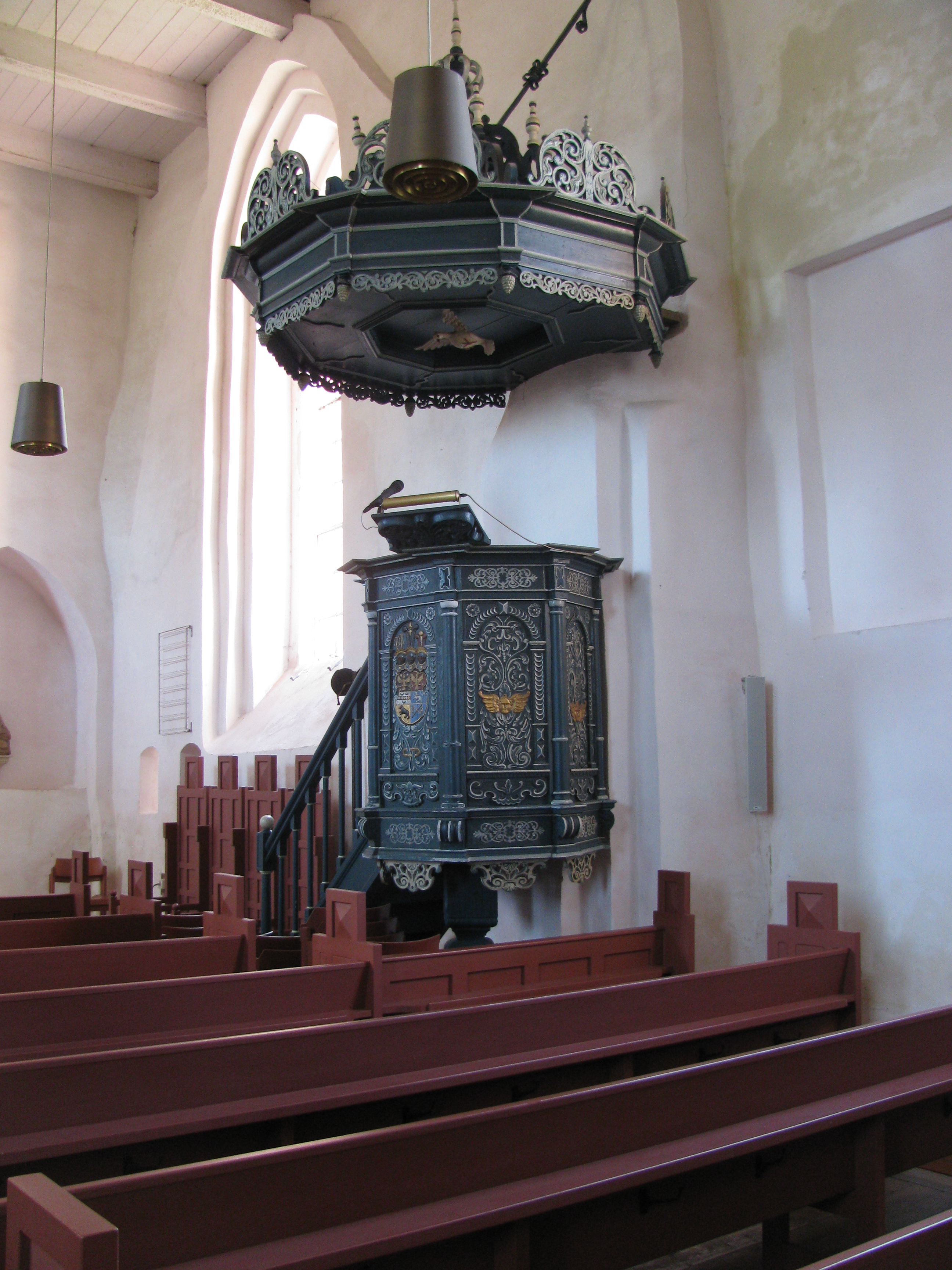 Interior of the St.-Aegidien-Kirche (Stedesdorf), pulpit